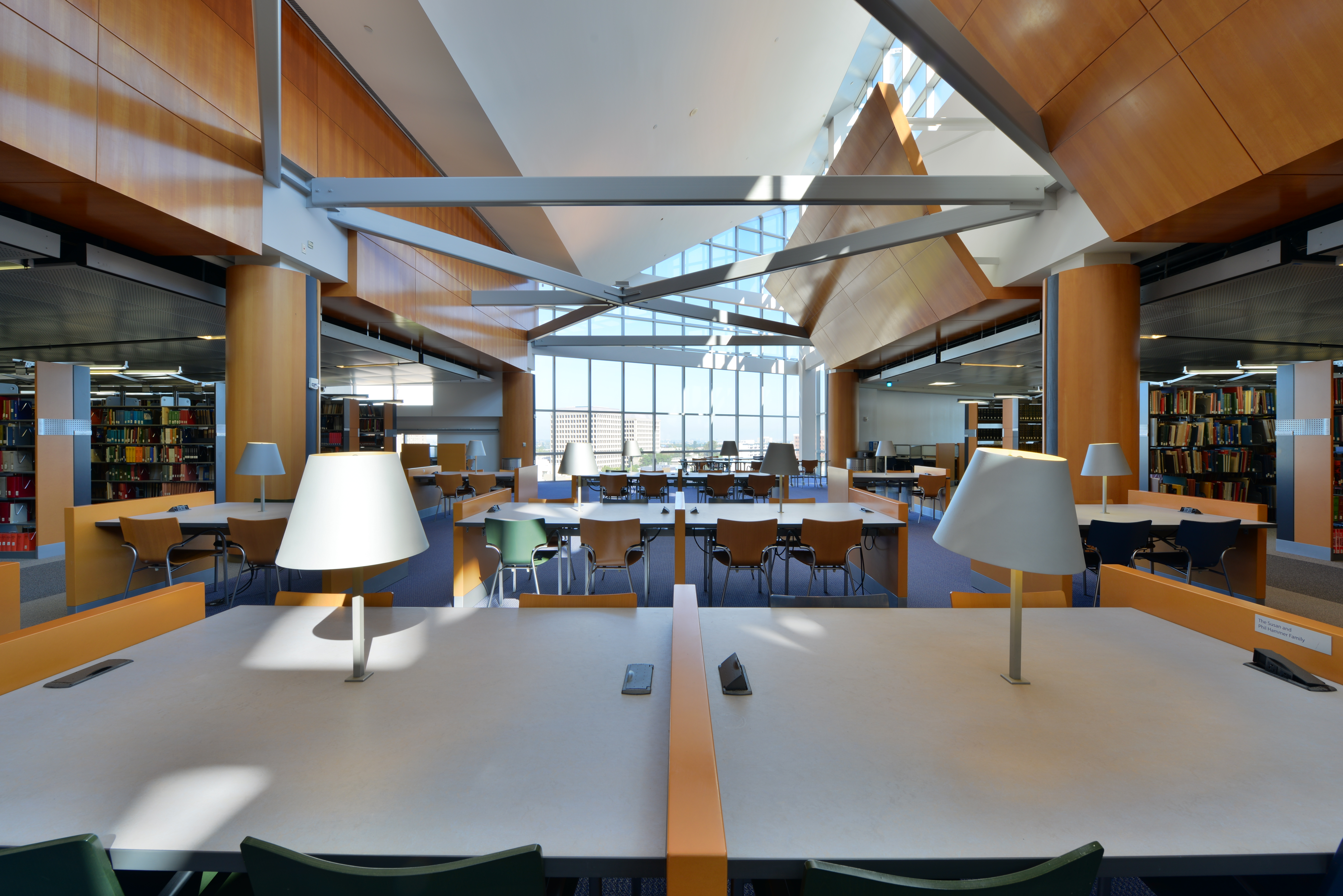 Interior view of 8th floor reading room in Dr. Martin Luther King, Jr. Library in downtown San Jose, California, USA